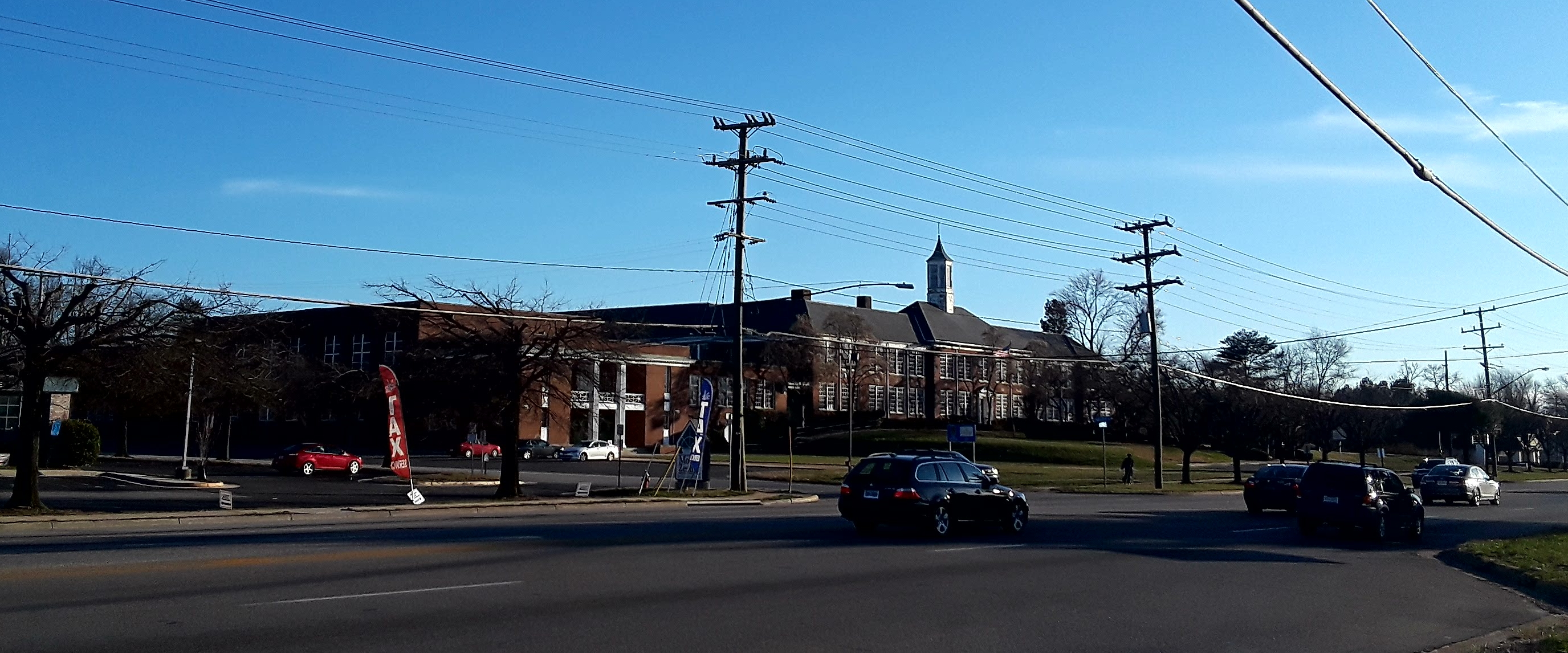 Former Mount Vernon High School building, Alexandria, Virginia.